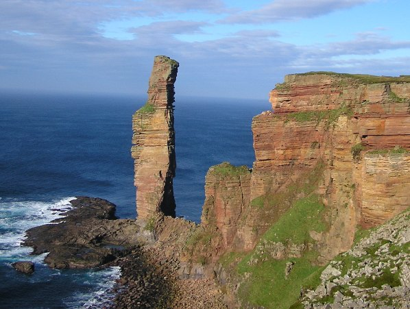 Old Man of Hoy. Taken by User:Grinner on 16 October 2005. Category:Stacks